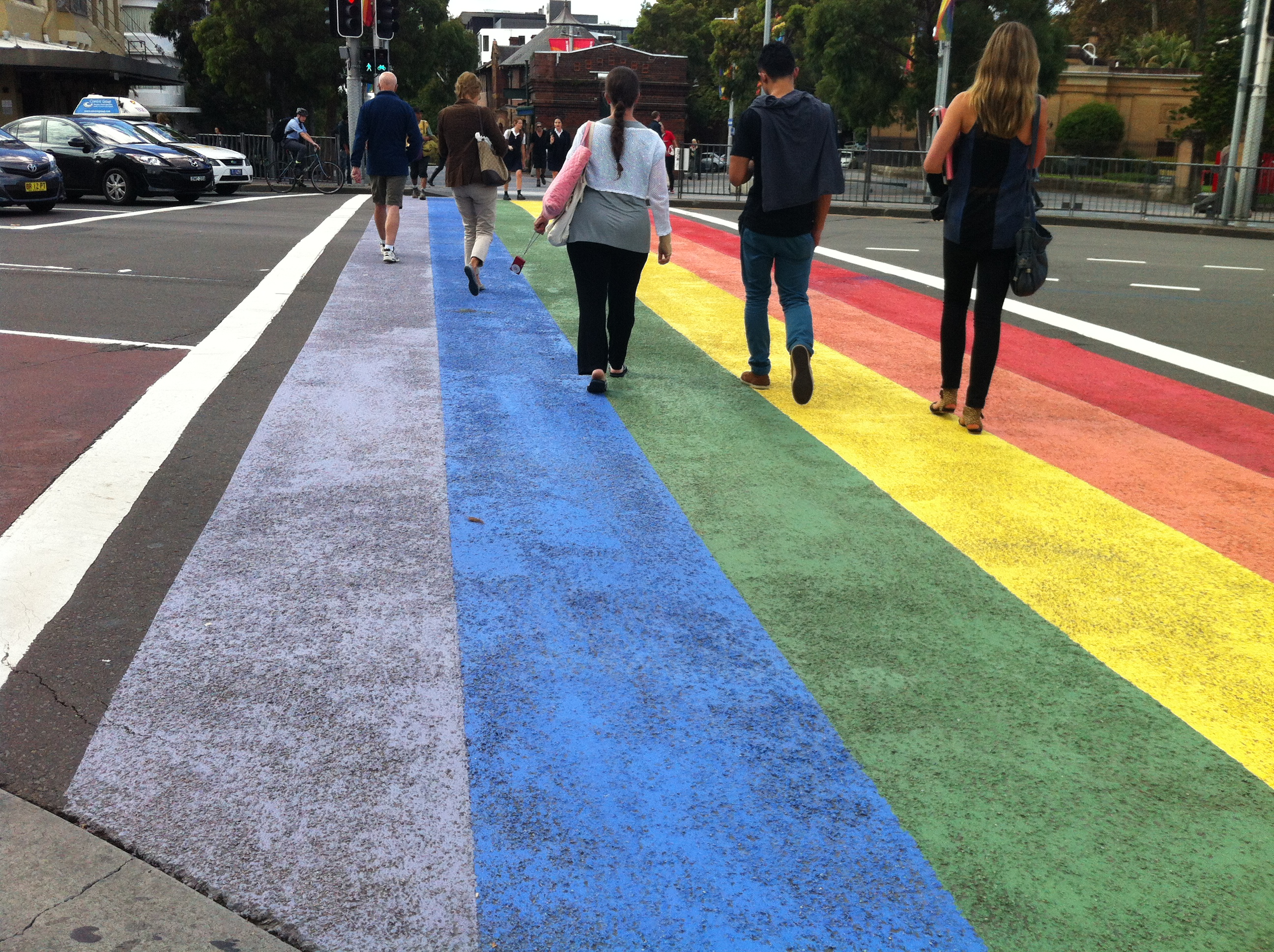 Oxford St at Taylor Square. Photo taken 5 April 2013